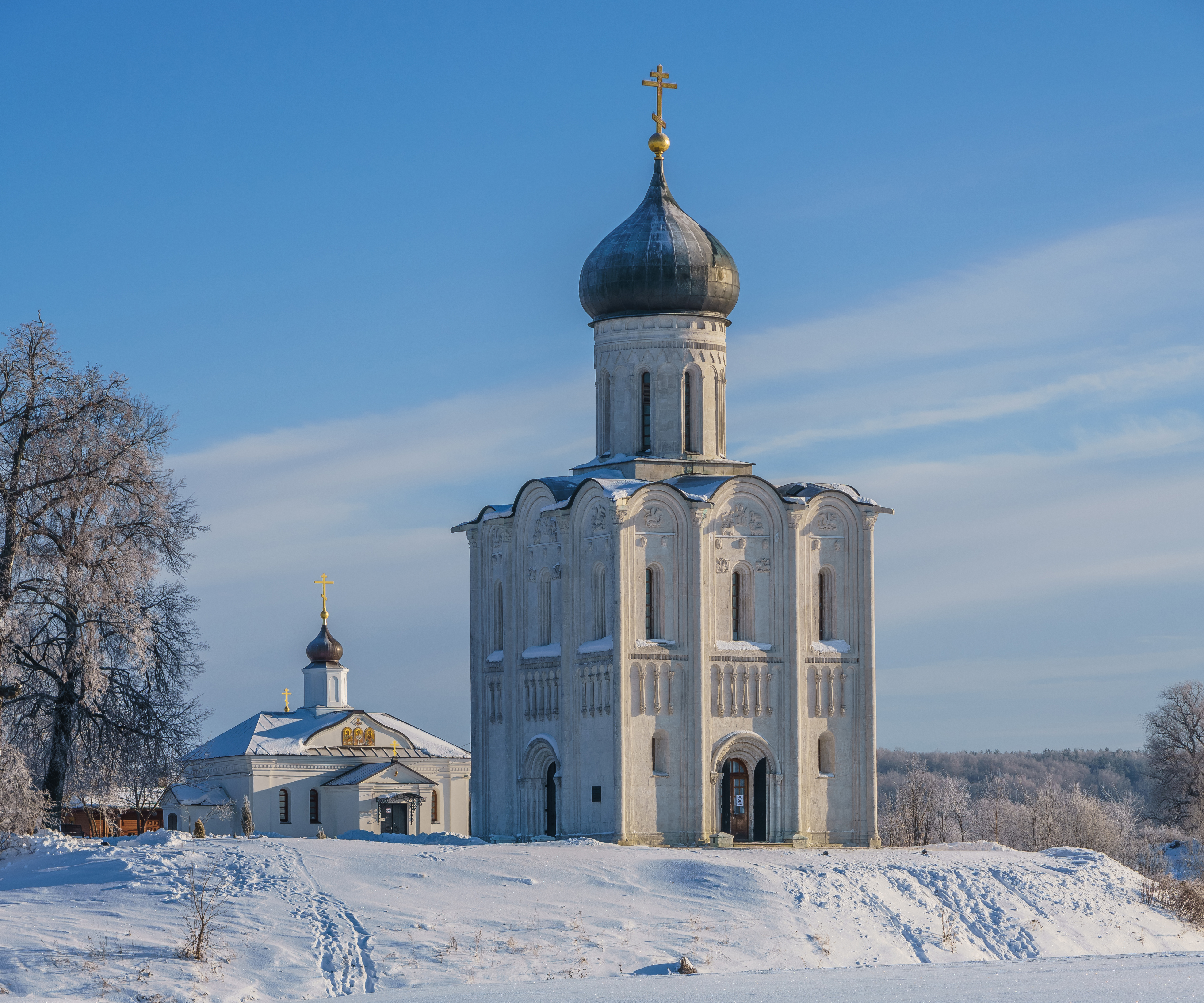 Church of Three Holy Hierarchs (left) and Intercession Church on the Nerl in Bogolyubovo near Vladimir, Russia